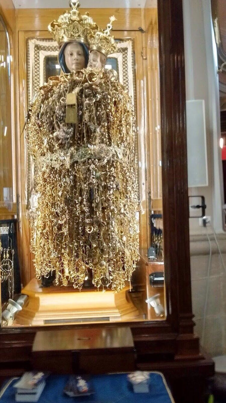 Statua della Madonna del Carmine di Avigliano in processione